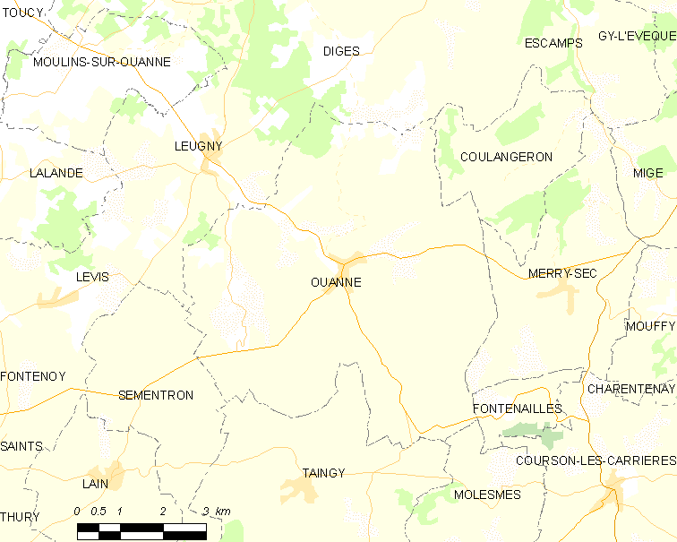 Map of French municipality Ouanne